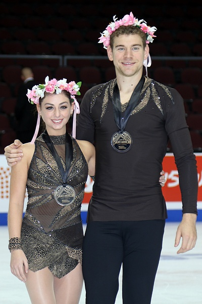 Haven Denney and Brandon Frazier at the 2019 Skate America